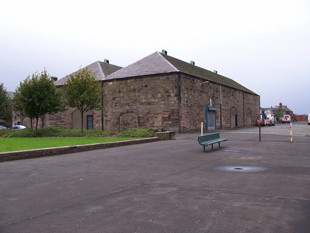 West Quay Old warehouses on West Quay, viewed from Coronation Park. The sheds are used as a garage by The Port Glasgow Motor Co.